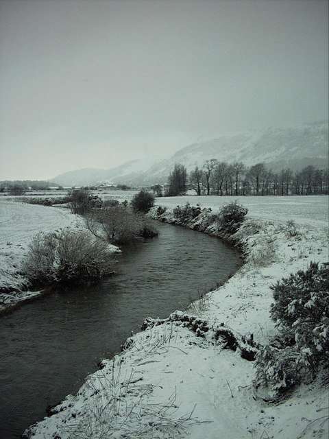 The River Devon taken from Tullibody Bridge facing north west. The hills to the north are the Ochils rising to over 700m.